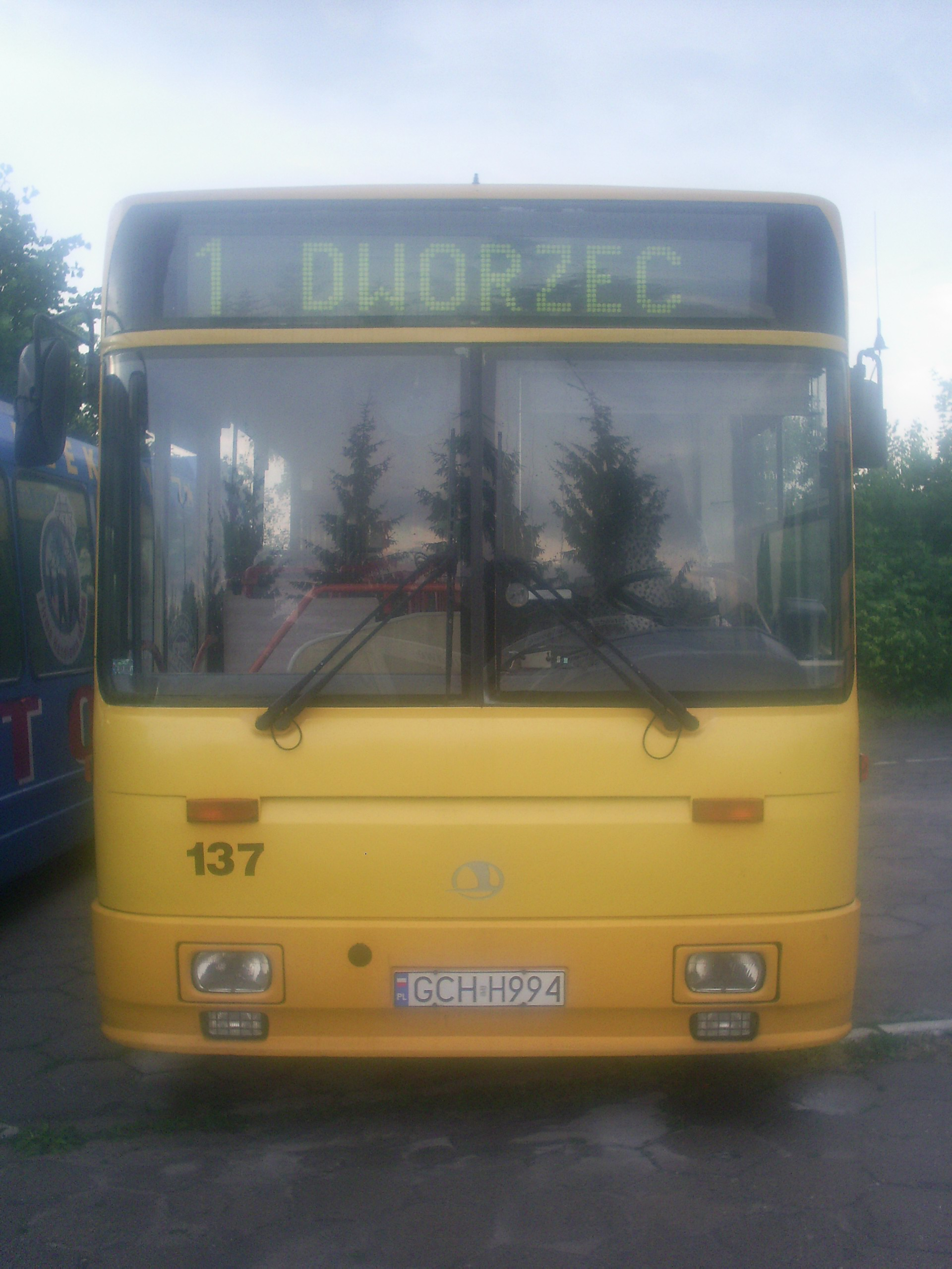 Autosan A1010M Medium bus (reg. GCH H994, #137) in Chojnice, Poland. Built 2000, MZK Chojnice operator.